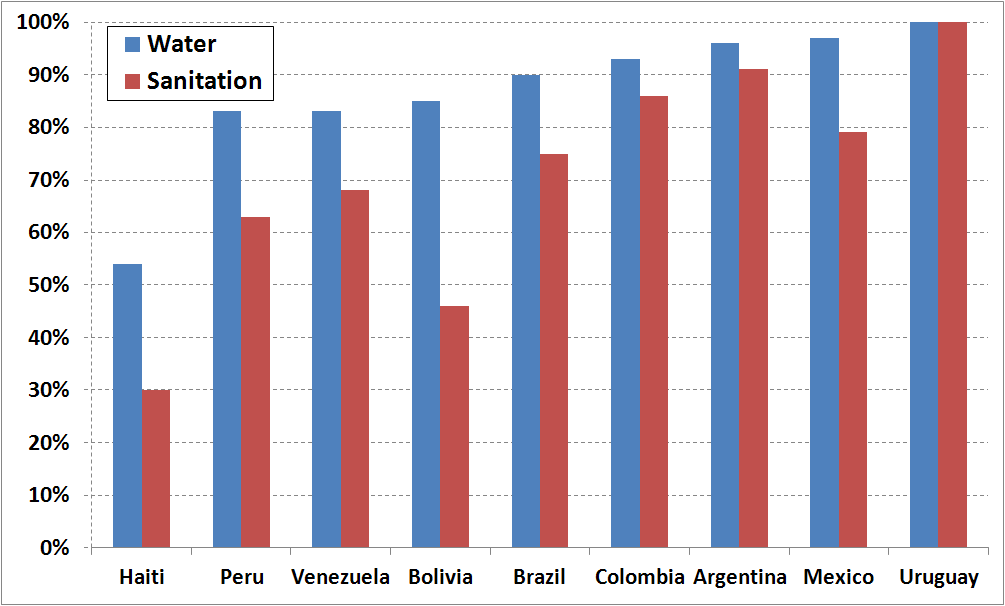 Water and sanitation coverage in some countries of Latin America and Haiti